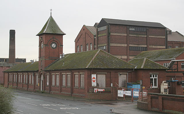 BOCM mills, Barlby, Selby Operations on this site are much reduced from formerly, as BOCM Pauls have concentrated on inland rather than port sites in recent years. This building, built in the early years of the 20th century, was once the Company Laboratory but is now disused. BOCM Pauls are a major producer of animal feedingstuffs.